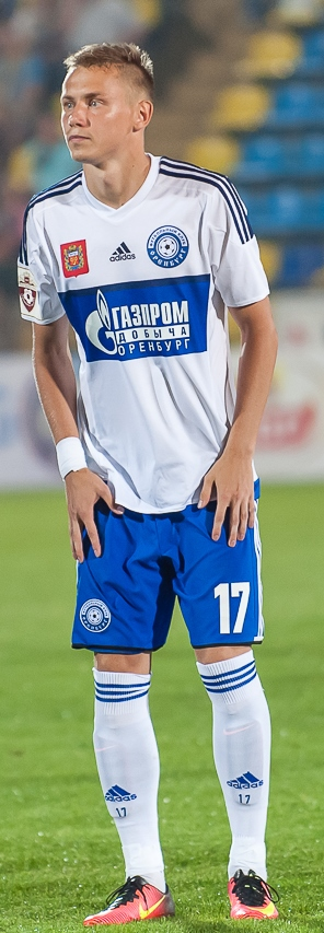 Dmitri Vladislavovich Yefremov